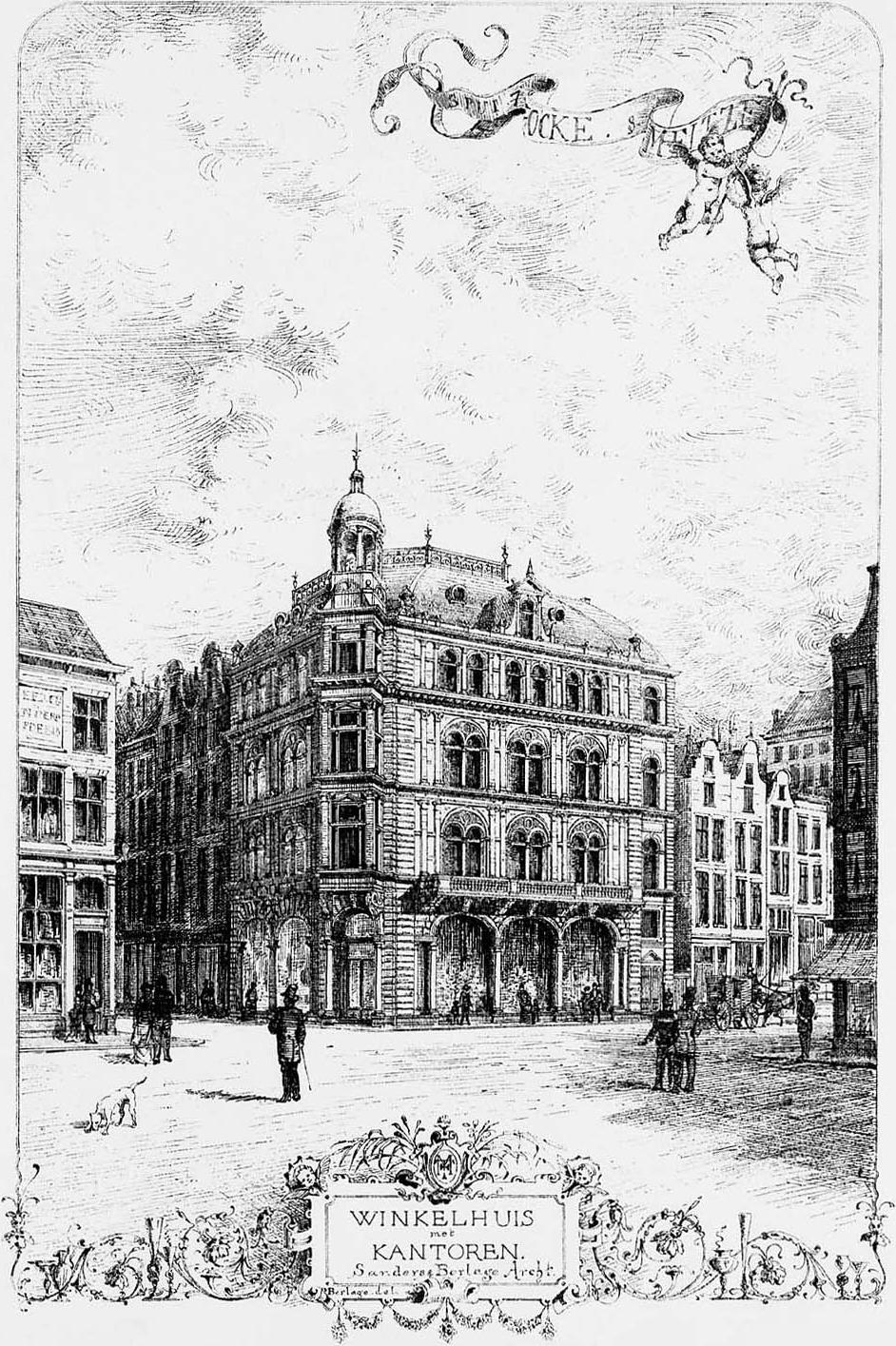 H.P. Berlage and Th. Sanders (architects). Mercurius building, Spui 7, Amsterdam. 1884-1886.